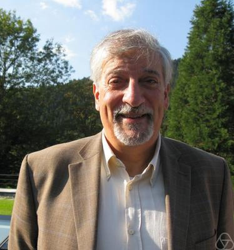 Fabrizio Catanese, Oberwolfach 2011